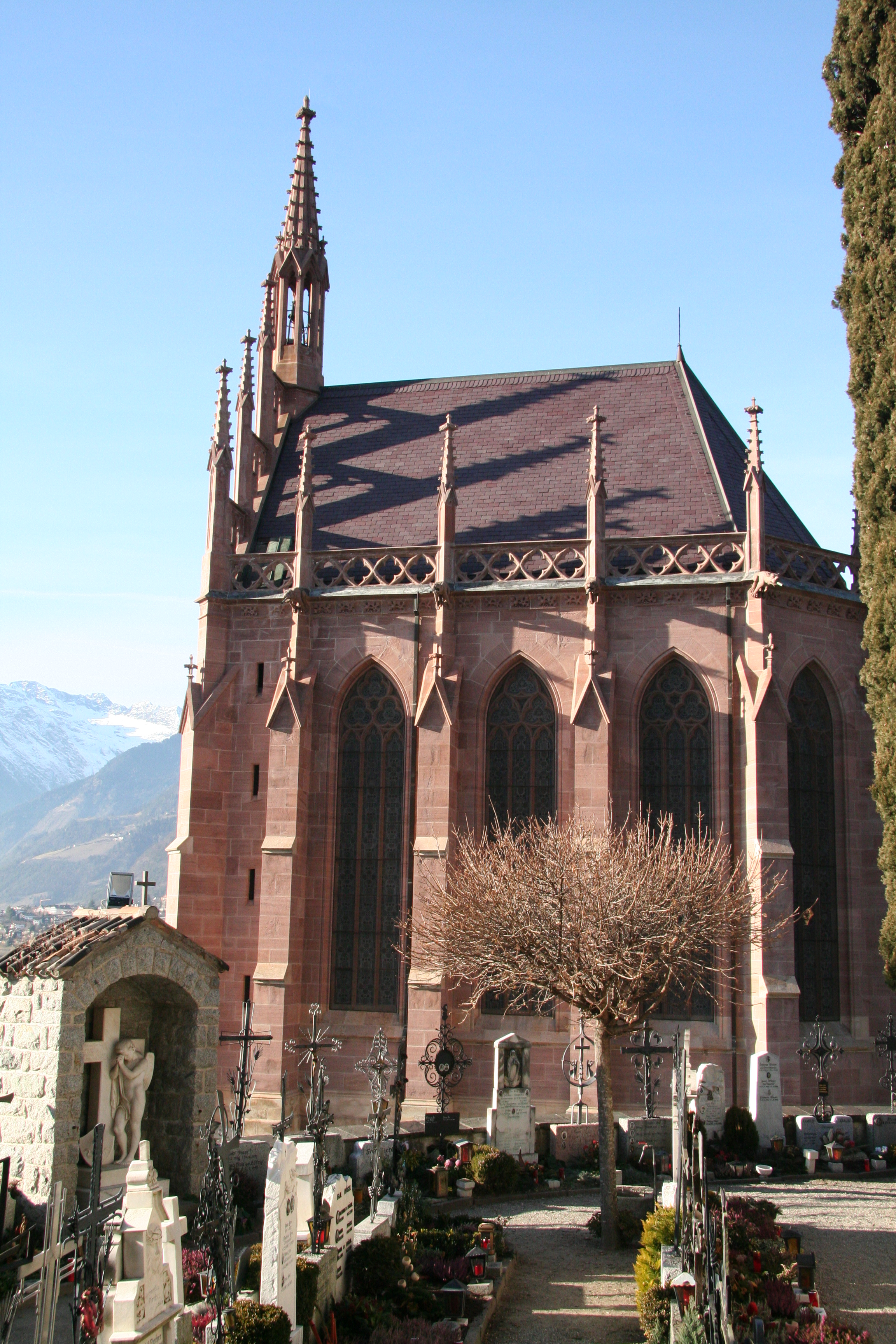 Mausoleum of Archduke Johann of Austria in Schenna, South Tyrol